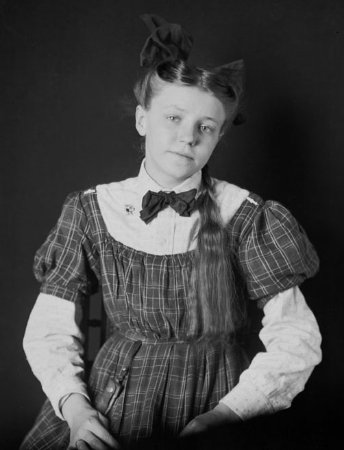 Portrait (Front) of Lillian Gross, Niece of Susan Sanders (Mixed Blood) 1906. Lillian Gross' culture is Cherokee.